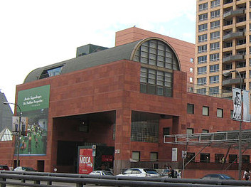 Museum of Contemporary Art (MOCA) in downtown Los Angeles, California